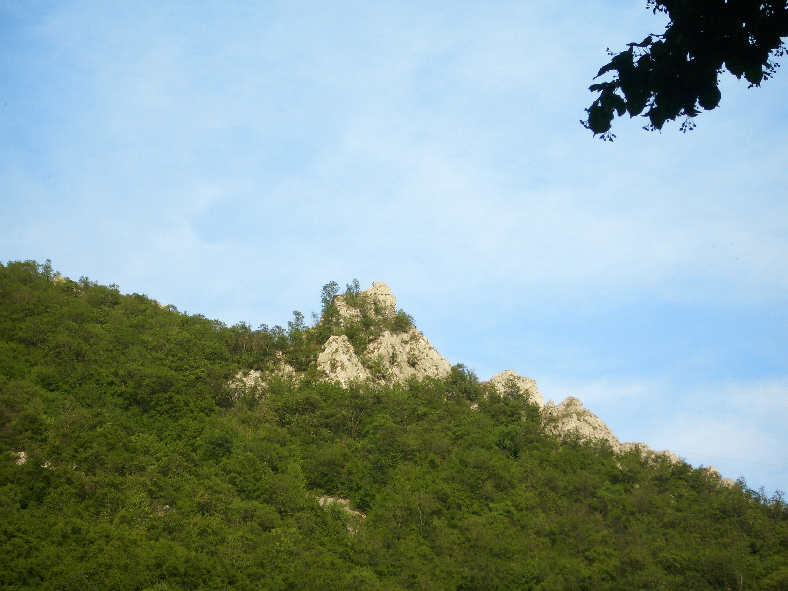 Ždrelo fortress remains in Gornjak gorge on Mlava,near Petrovac, Serbia.